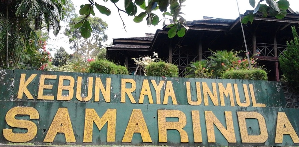 Kebun Raya Unmul Samarinda